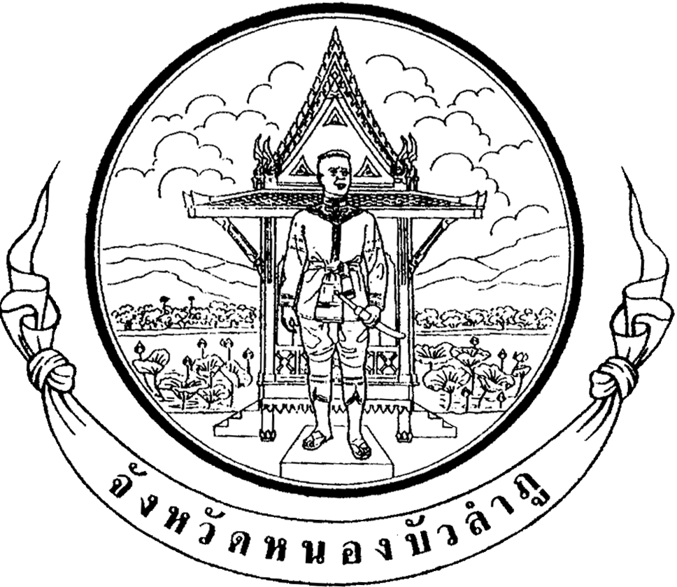 Provincial seal of Nong Bua Lamphu province.